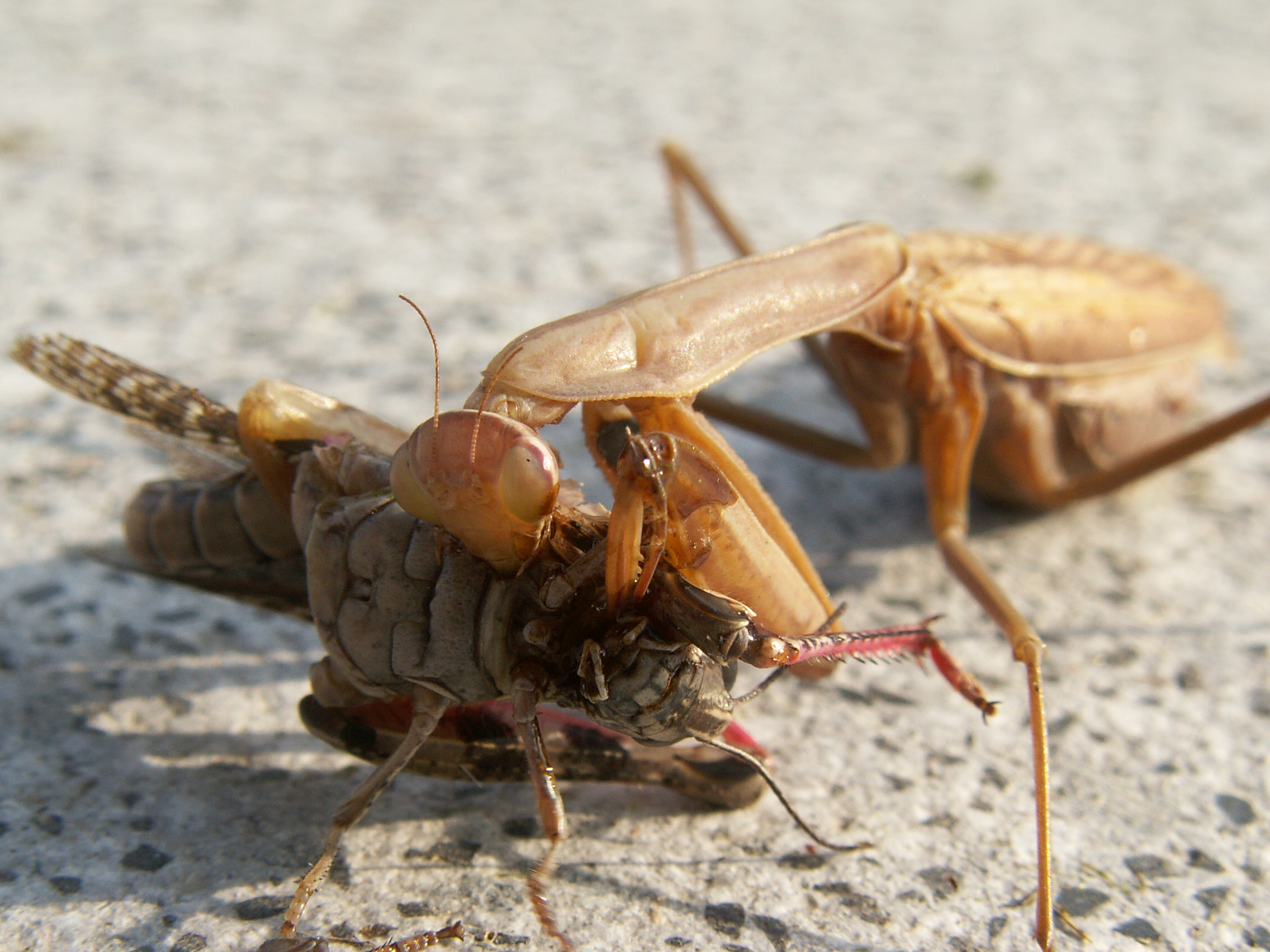 European mantis eats a grasshopper